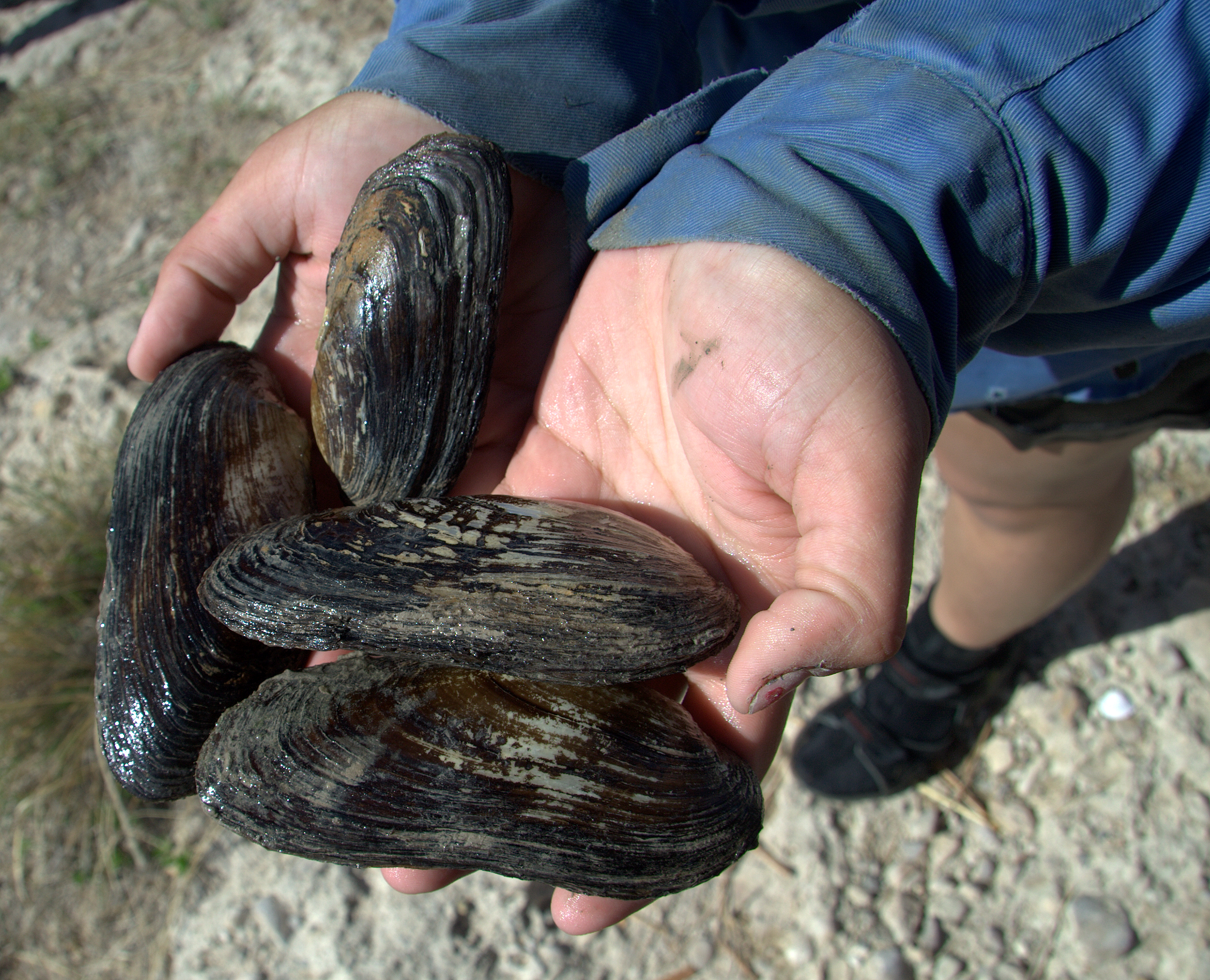 The New Mexico Department of Game and Fish has developed a recovery plan for the Texas Hornshell (Popenaias popeii), a native mussel found in the Black River, a tributary of the Pecos River in southeastern New Mexico.